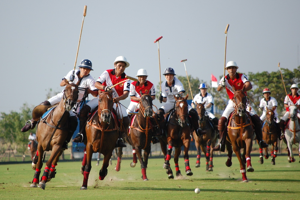 Indonesia plays against Thailand in a round robin SEA Games 2007 Thailand Polo match. Thailand won the match 6 - 3.